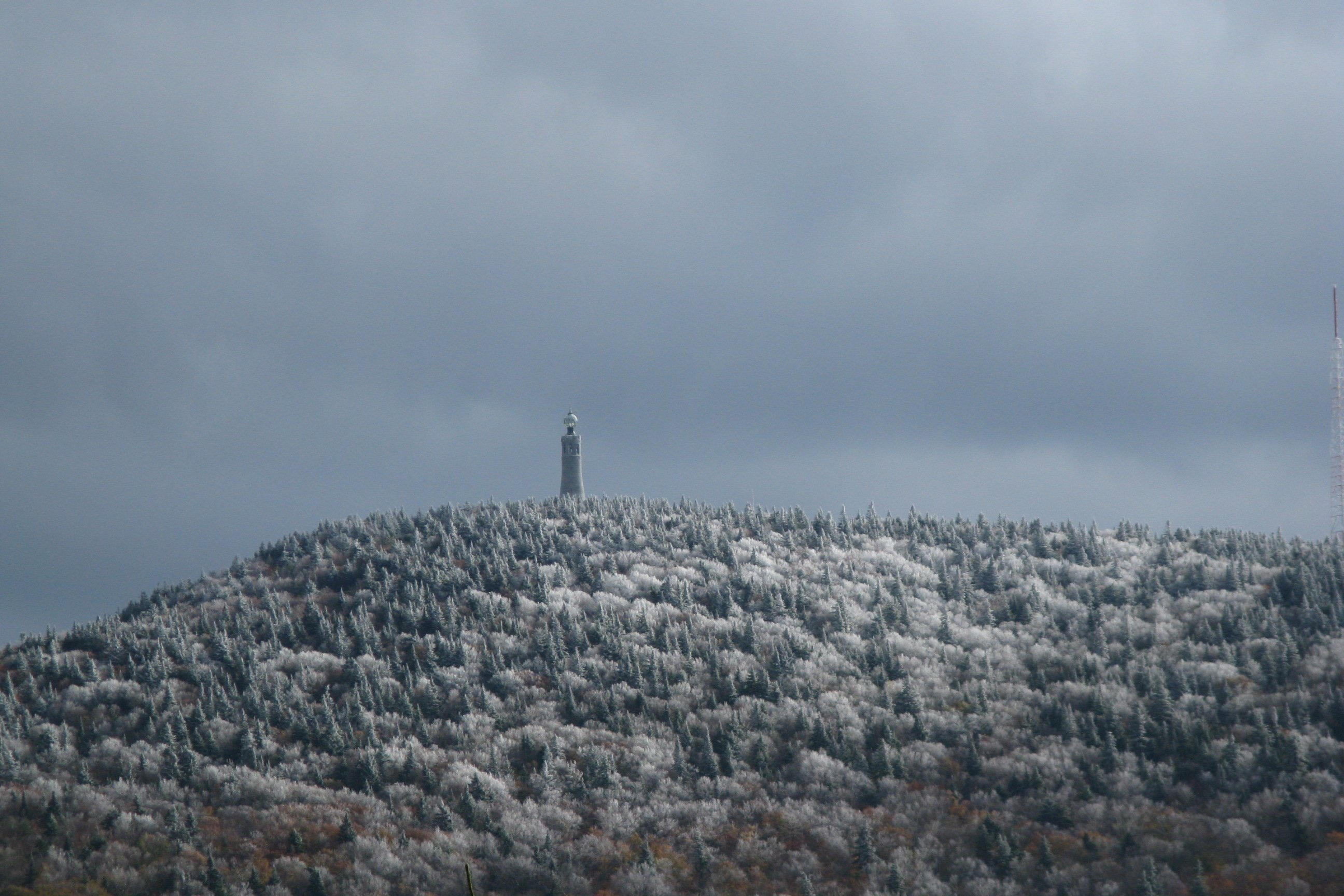 Frost on Mt Greylock, from Notch Rd, Adams Massachusetts